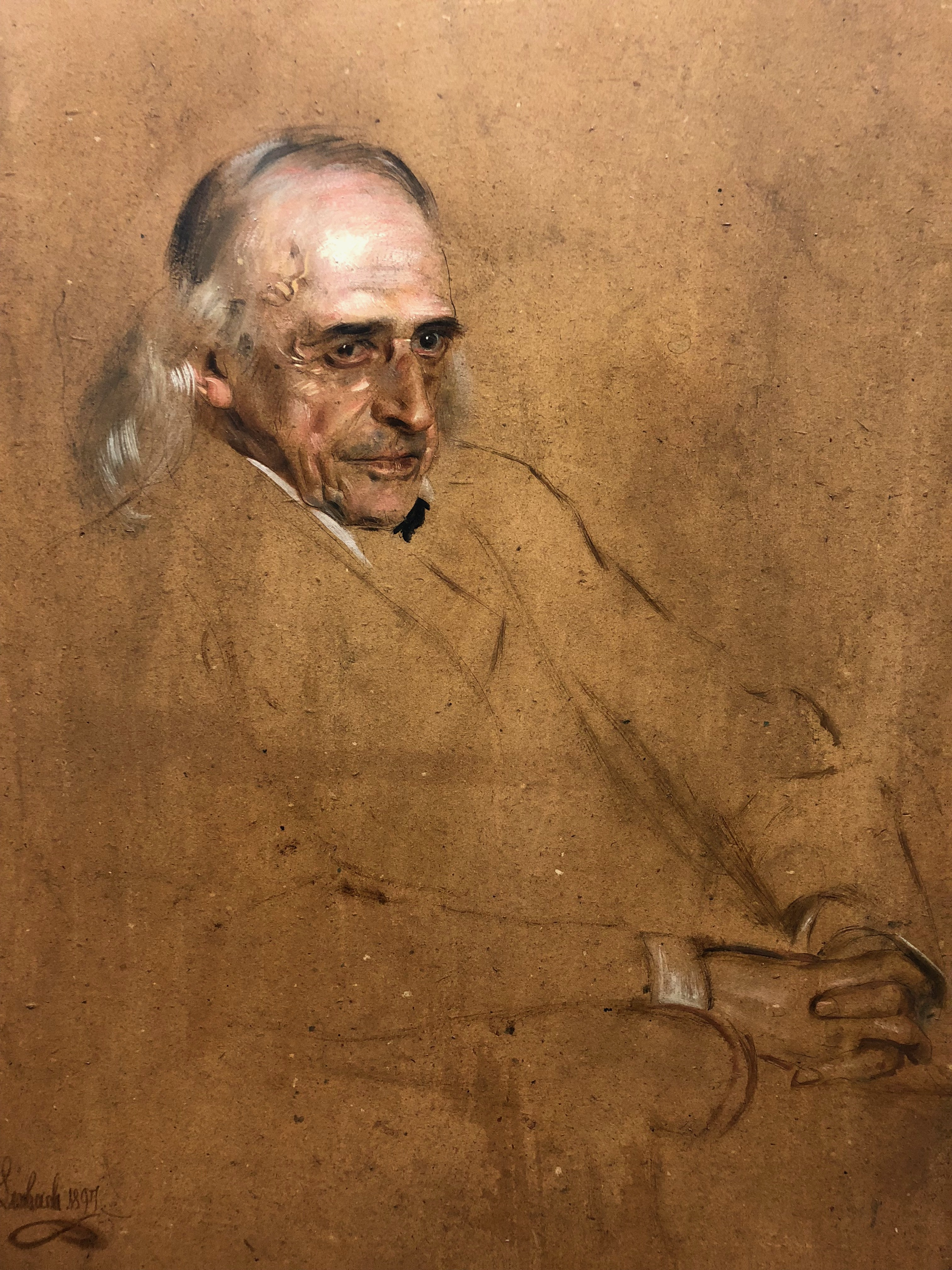 Photo of drawing of Theodor Mommsen by Franz von Lenbach, 1897, in Alte Nationalgalerie, Berlin